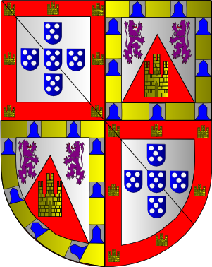 Arms of the Portuguese Noronha family, ancient Counts and Dukes of Linhares. Made by JSobral